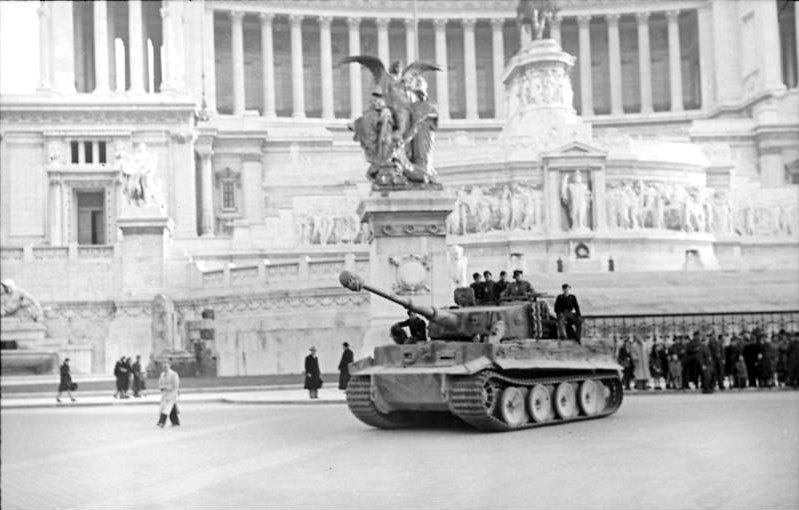 Information added by Wikimedia users.Carro armato tedesco Tiger I di fronte all'Altare della Patria a Roma, nel febbraio 1944. Schwere Panzer-Abteilung 508 (only Tiger unit that went to Rome)[1]